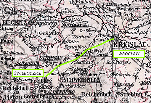 Detail from a map of Silesia with railway route Swiebodzice - Wroclaw.